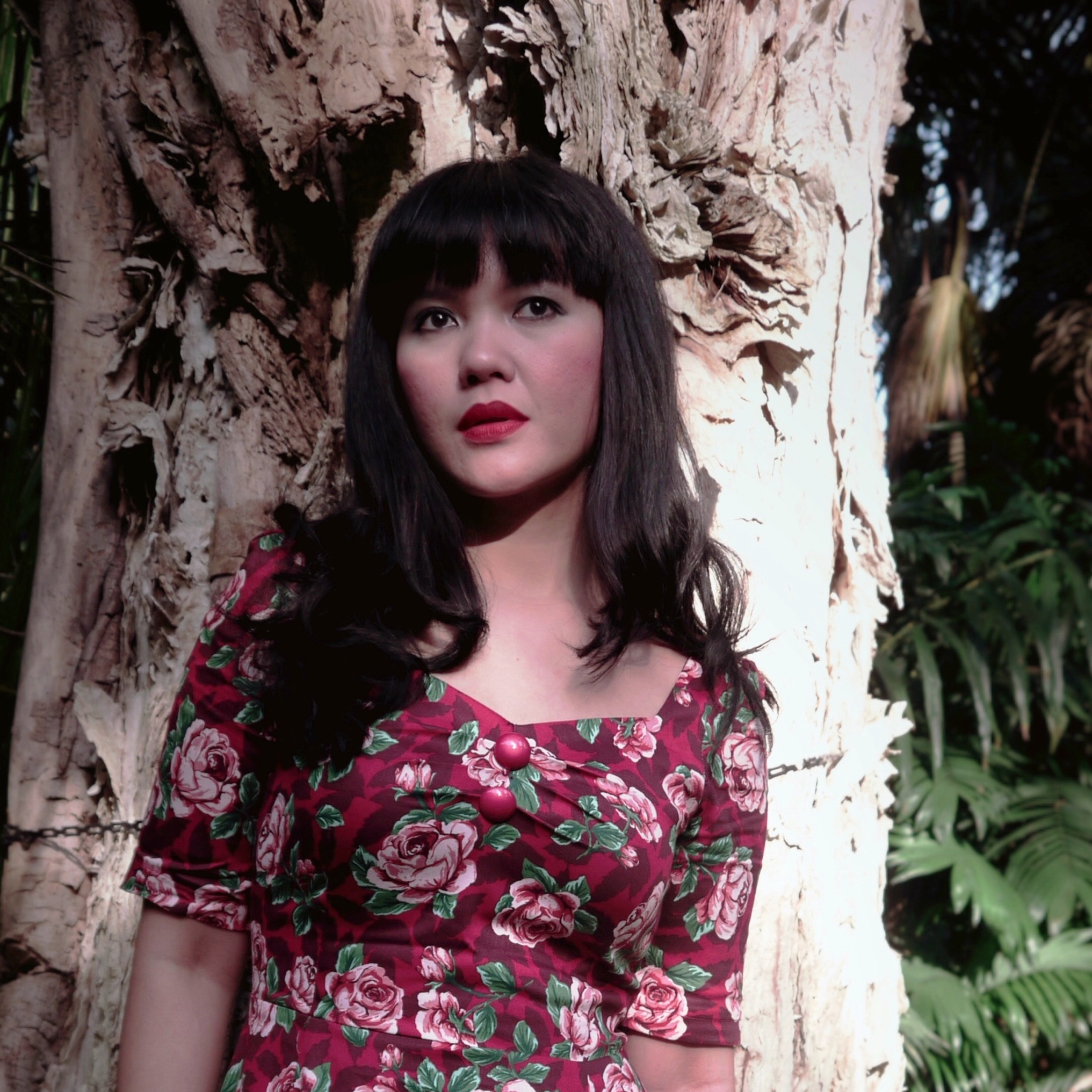 Author's photo of Intan Paramaditha (Asia Literary Agency).